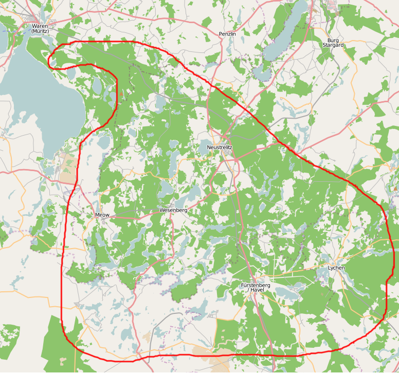 Rough border line of Neustrelitzer Kleinseenland natural region